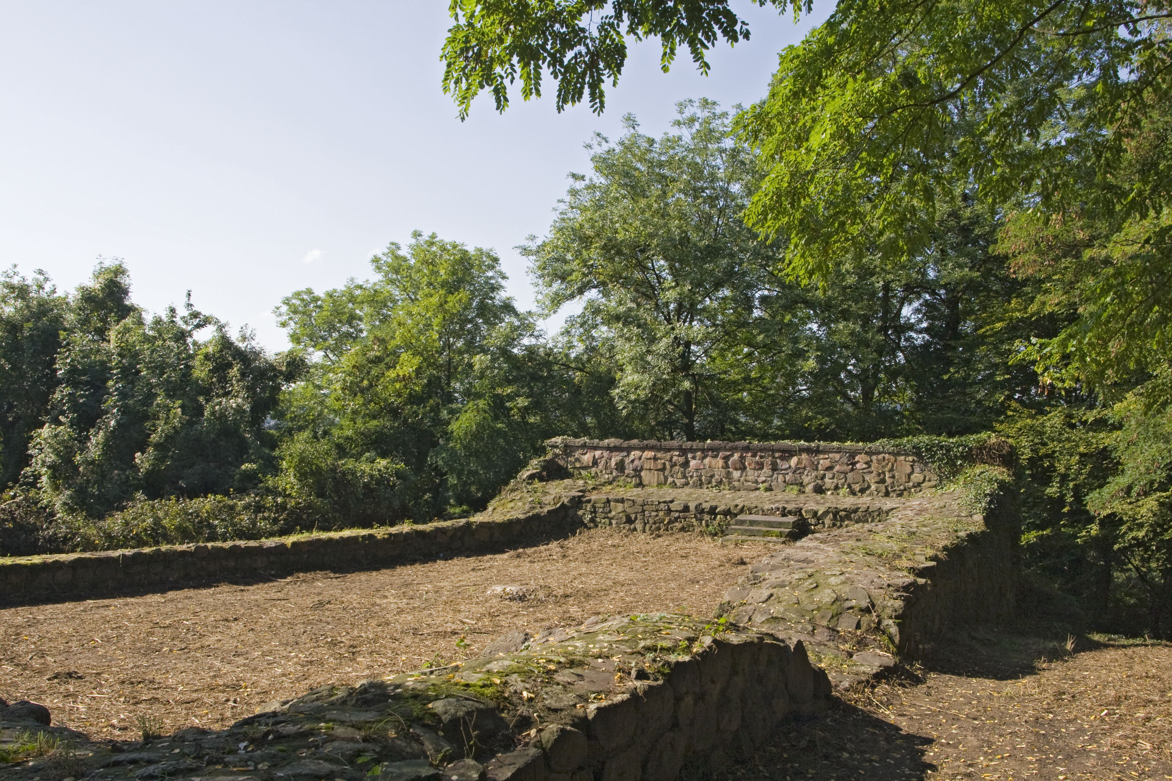 Steinerhäuschen at Bonn-Oberkassel, ruins of a castle founded in the 10th century